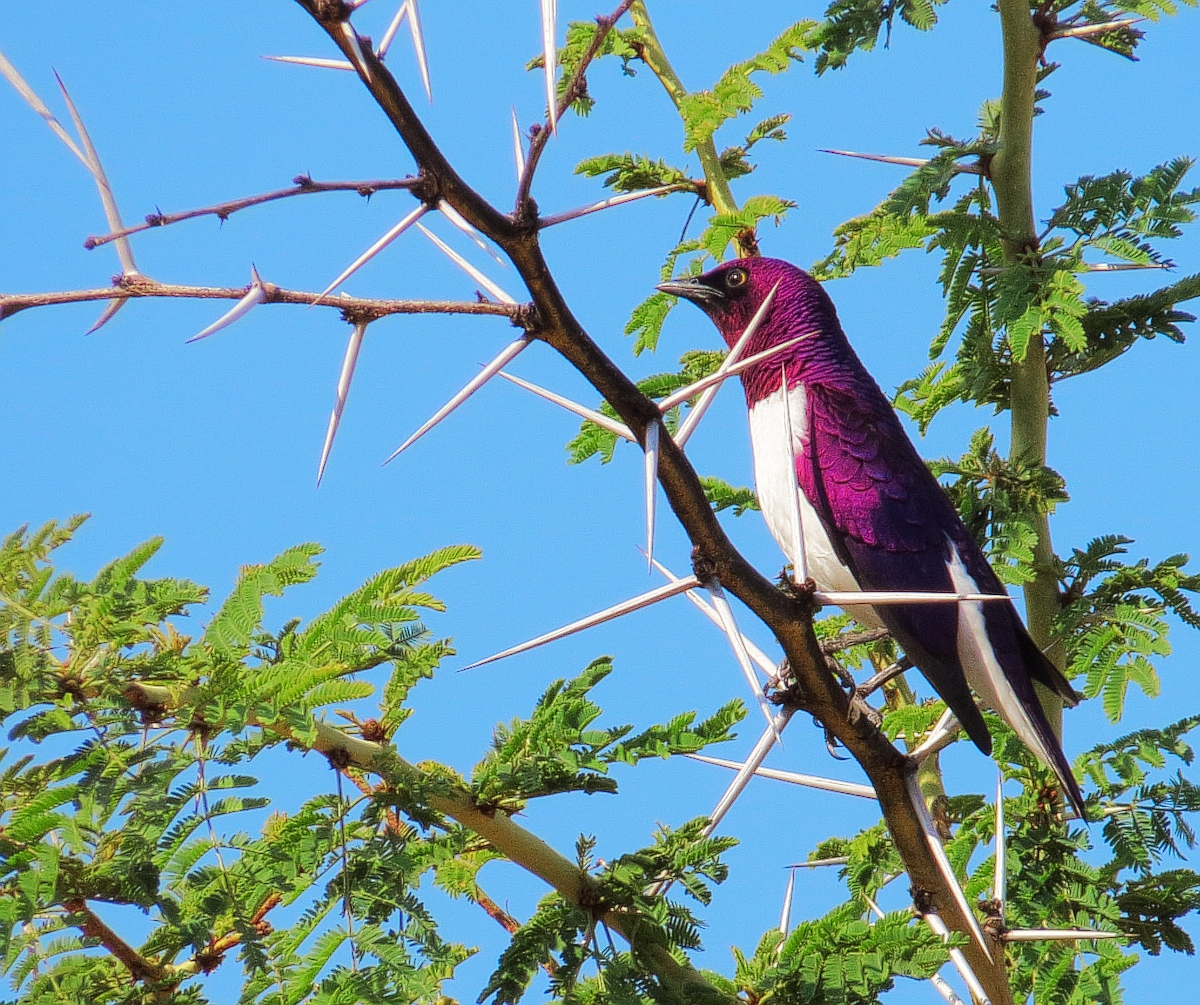 Violet-backed Starling Cinnyricinclus leucogaster, male, Limpopo, South Africa.